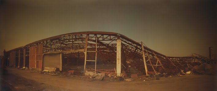 Impression lumineuse directe sur papier inversible couleur. 1996 (collection Centre Georges Pompidou, Paris)